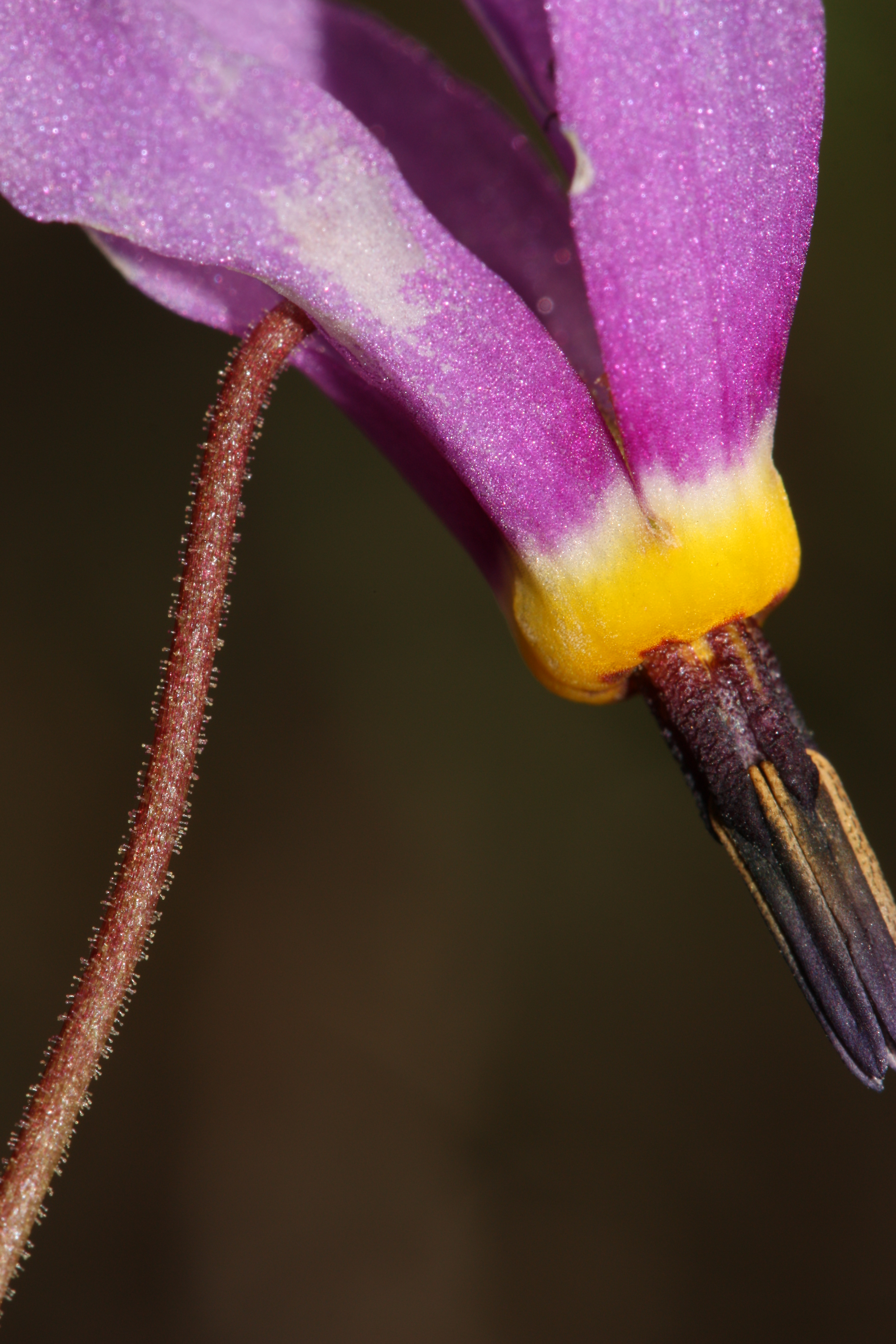 Poet's Shooting Star, Narcissus Shooting Star, Poet's Shootingstar Viewpoint location: Catherine Creek Trail (north of road), Catherine Creek Day Use Area Viewpoint elevation: 191 meter (627 ft) Location source: Google Earth Location Datum: WGS84